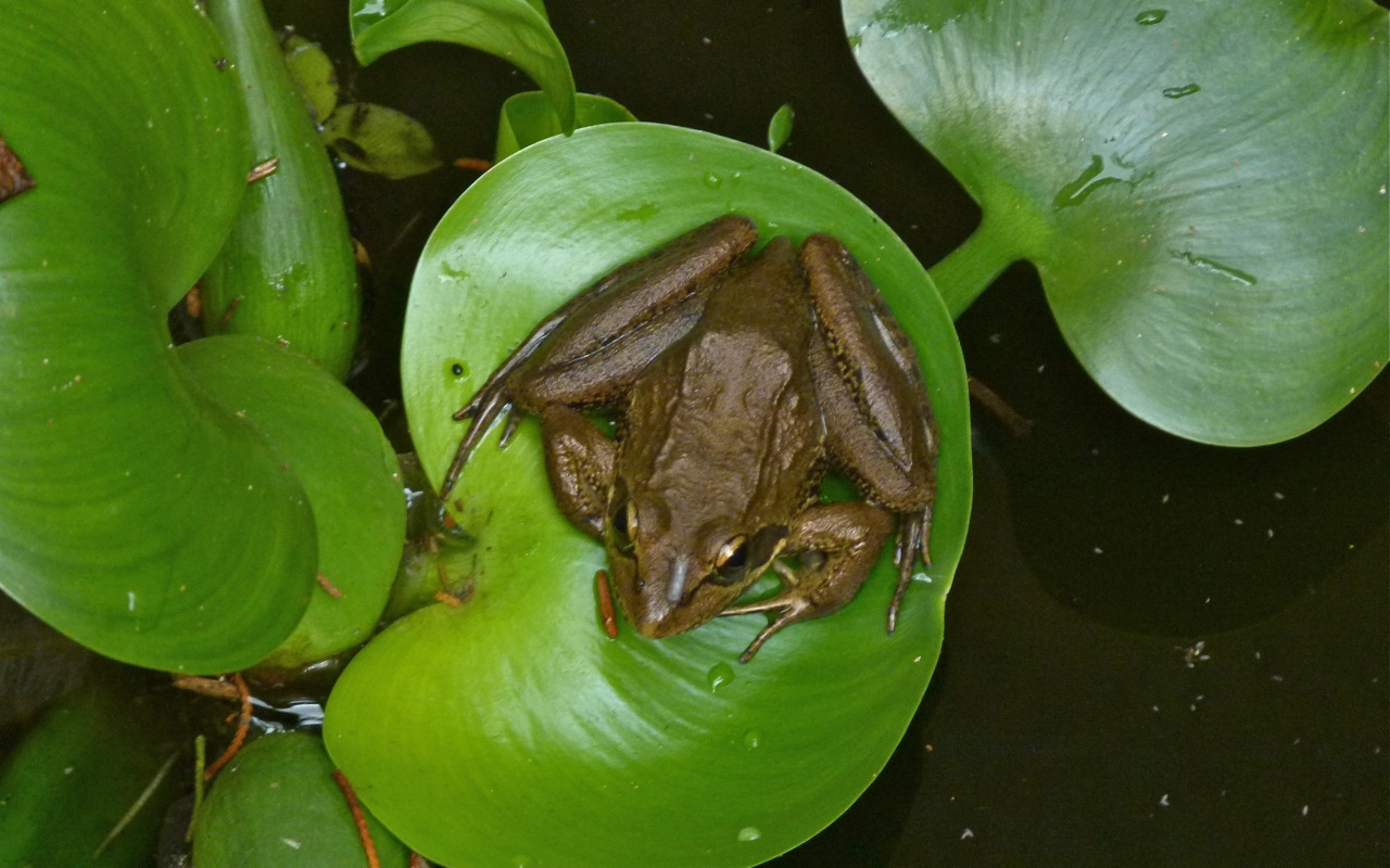 Common River Frog (Amietia angolensis) photographed in Nanyuki, Kenya.